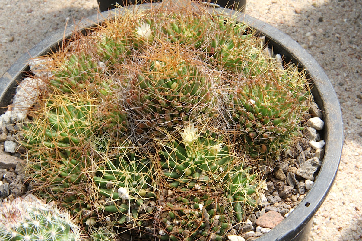 Mammillaria decipiens ssp. camptotricha